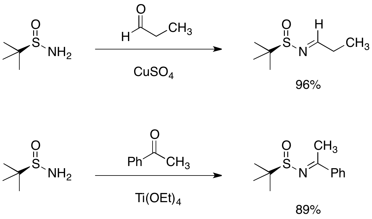 Chemdraw